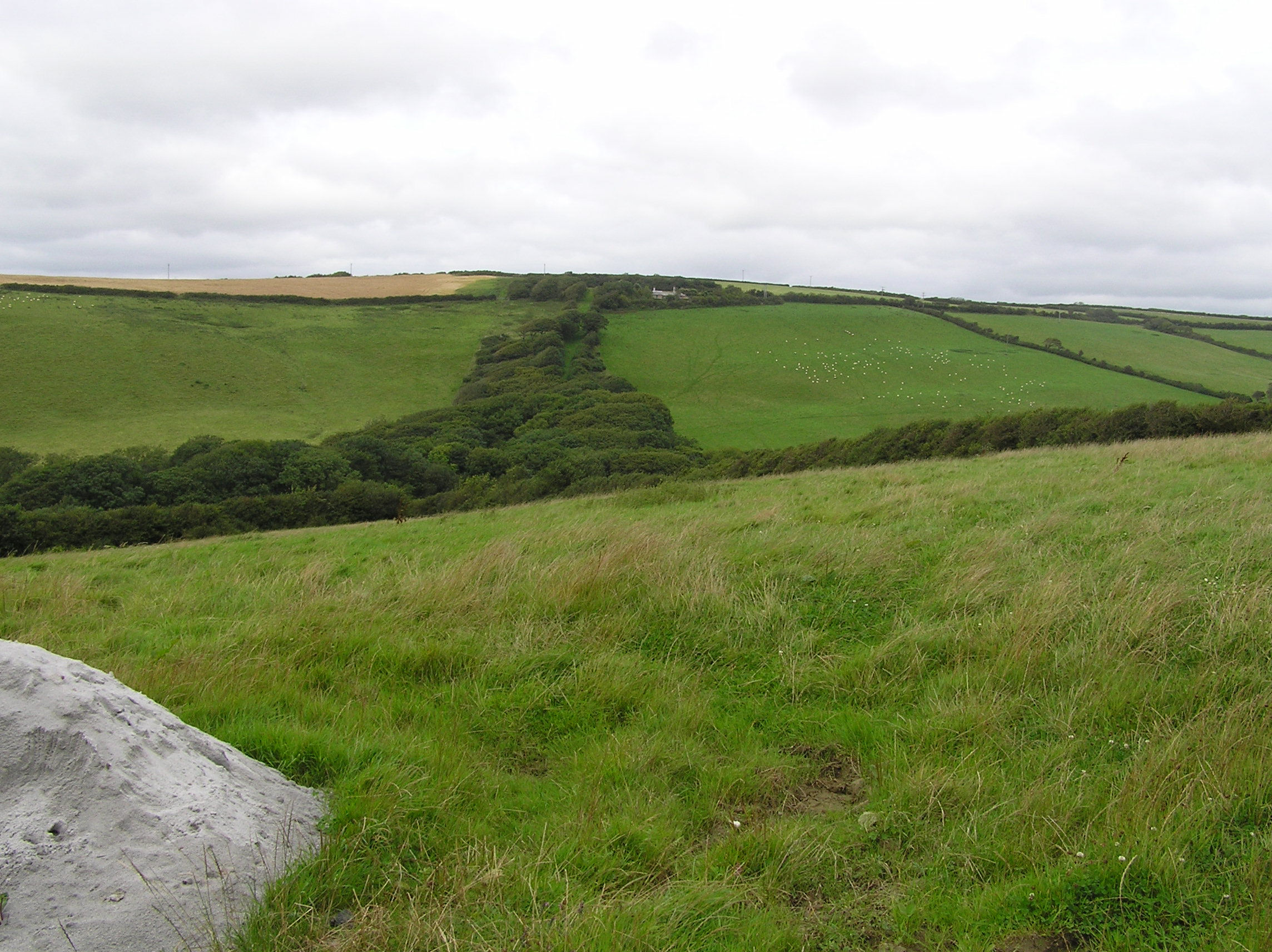 View of Hobbacott incline on the former Bude canal August 2007